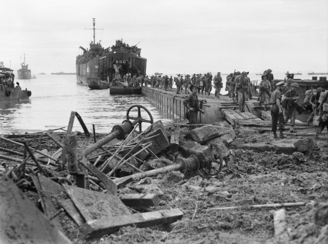 HQ 26 Infantry Brigade troops landing from a Landing Ship, Tank (LST) on Red 1 Beach, Tarakan. Wrecked Japanese installations are seen in the foreground.